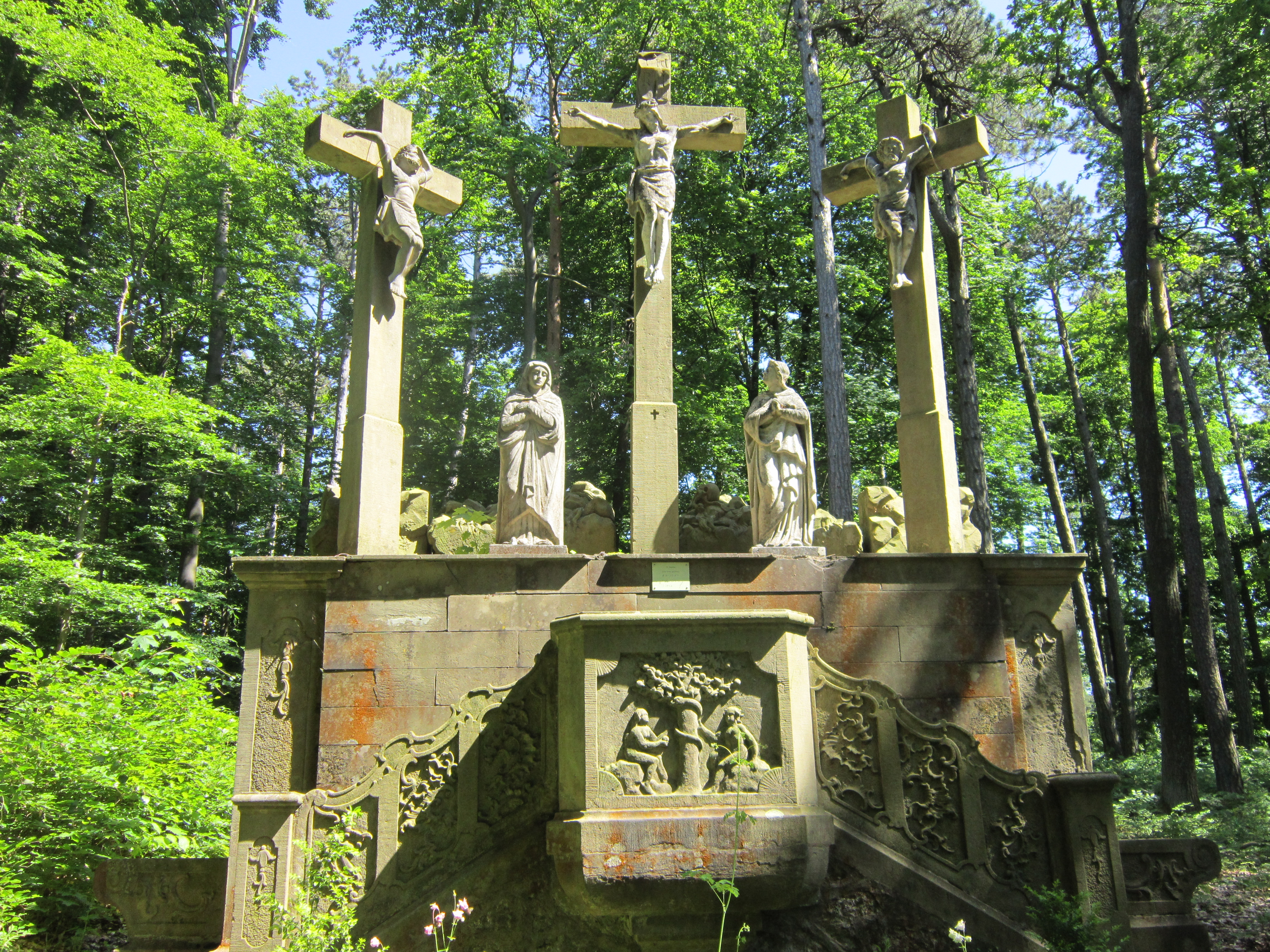 12th Station of the Way of the Cross of the "Stationsberg" in the German spa of Bad Kissingen in Lower Franconia (Bavaria).